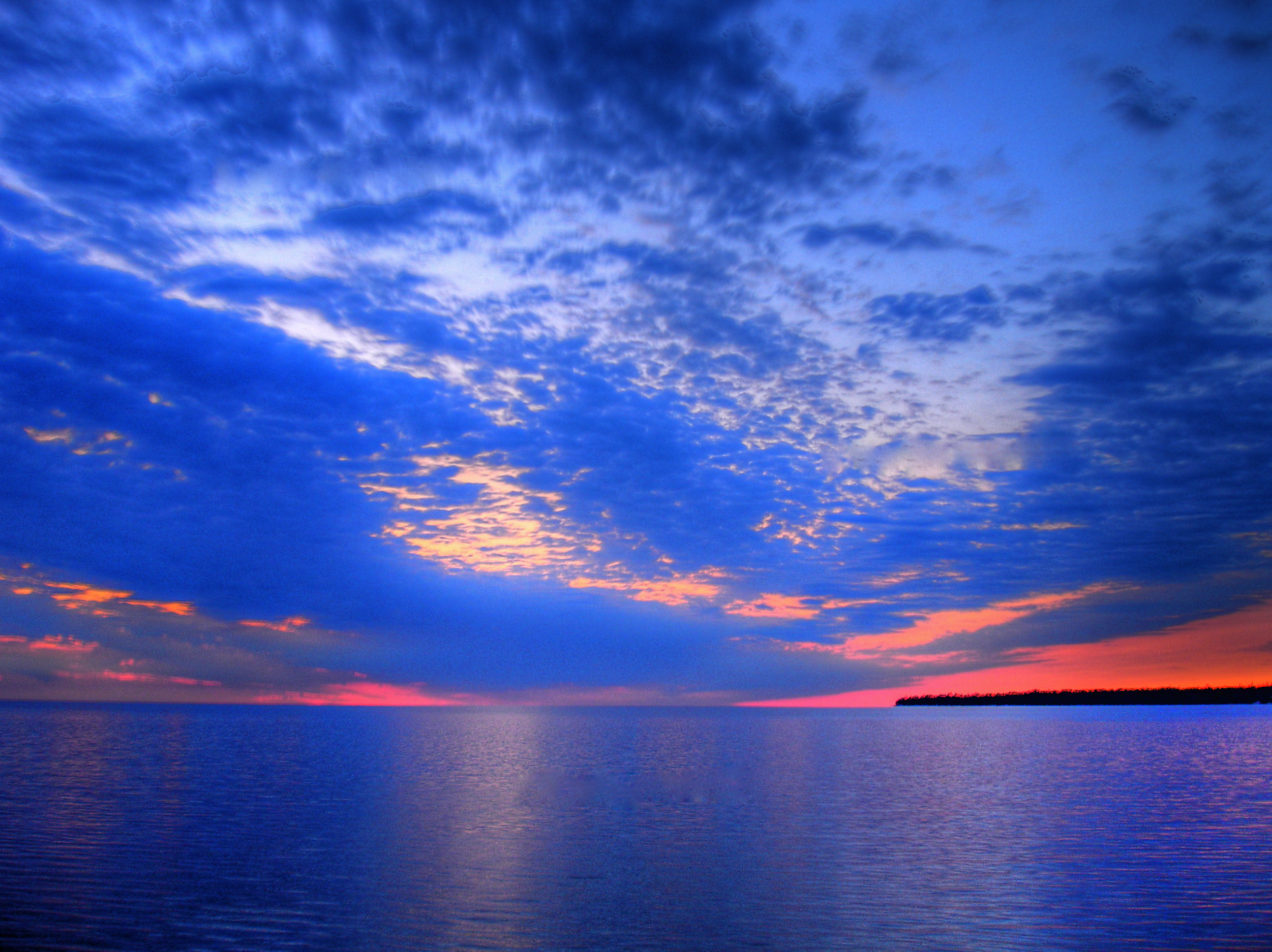 HDRI photograph of sunset on Lake Winnipeg, Manitoba, Canada.